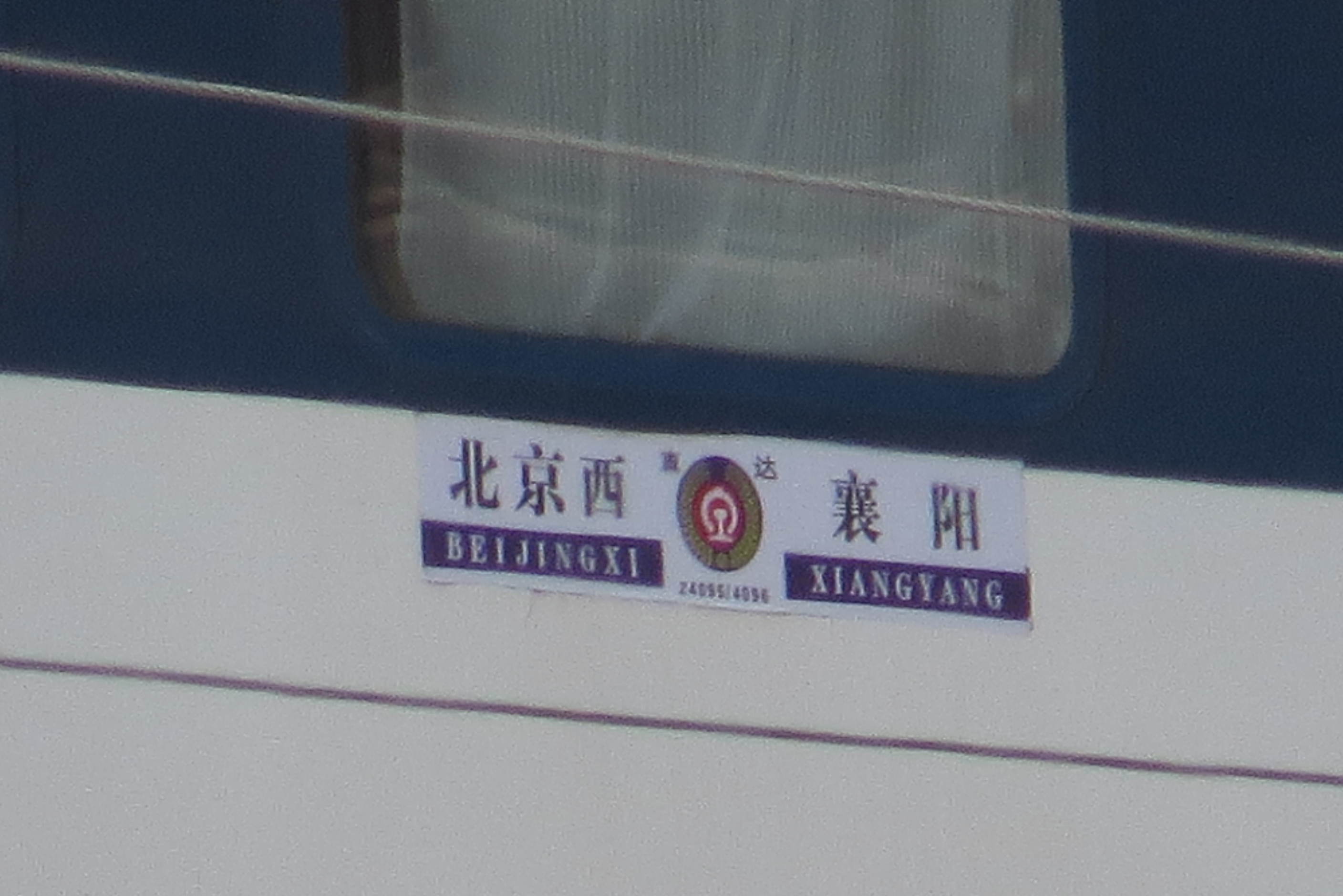 Beijing to Xiangyang. So is it the official train of FFF Group (from Baka and Test)?